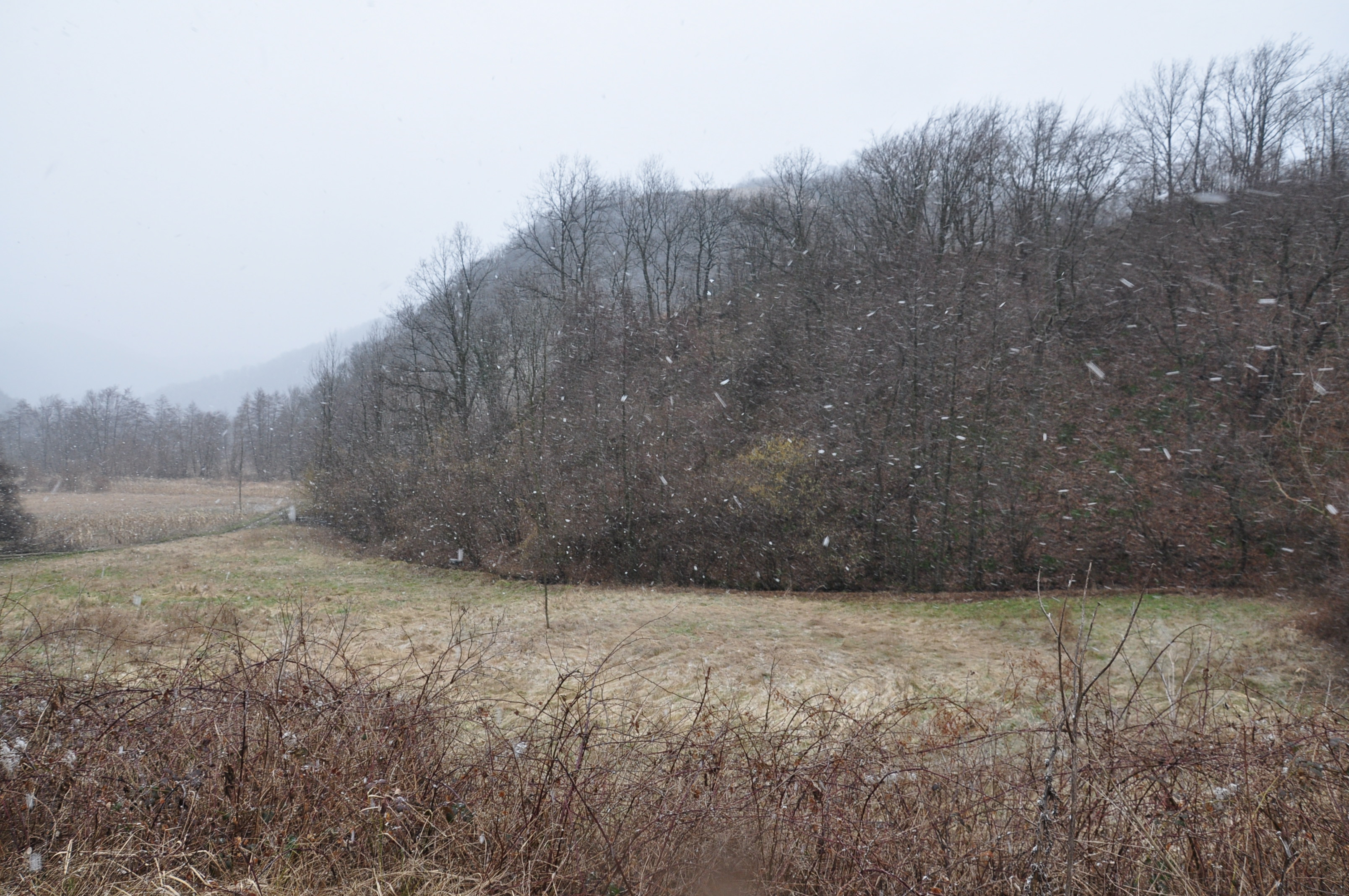 Kraku Lu Jordan